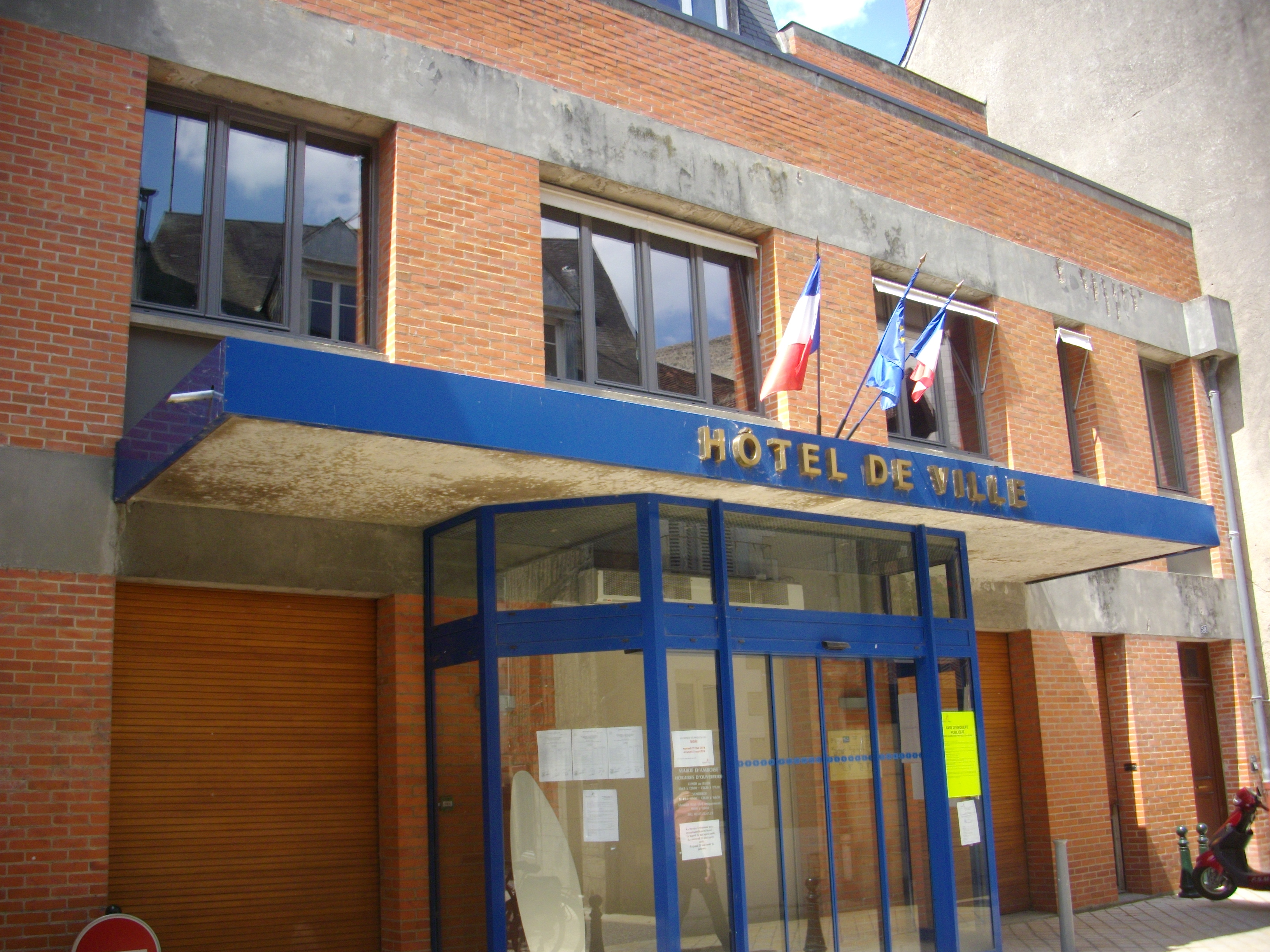 Town hall of Amboise (Indre-et-Loire, France)